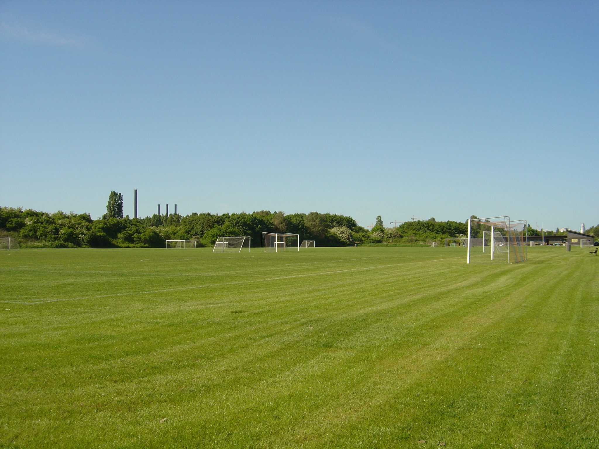 Hekla Park on Amager, Copenhagen. Seen from south section of the sports park, Vestamager.